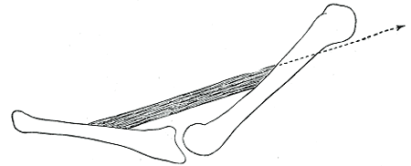 No caption.